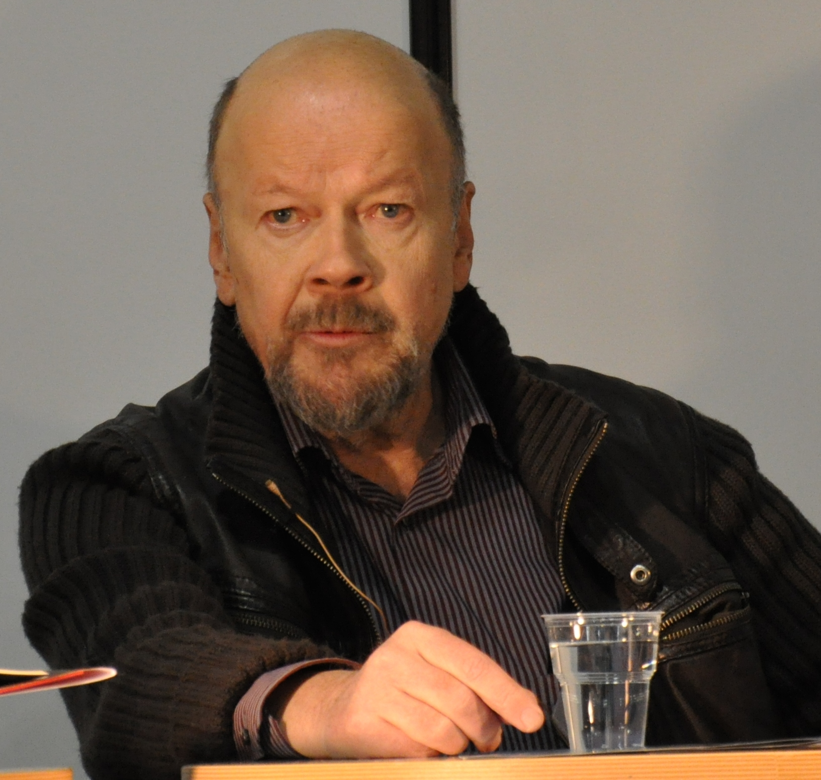 Finnish theatre director Jotaarkka Pennanen at the Tampere Book Fair 2010.